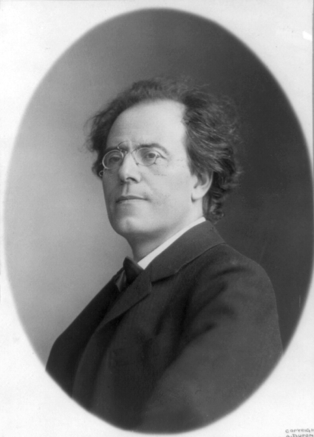 Gustav Mahler, 1860-1911; Head and shoulders, facing left